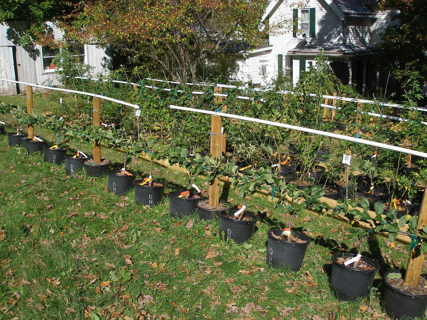 Stepover espalier having just had their branches lowered to horizontal and tied to a wire.